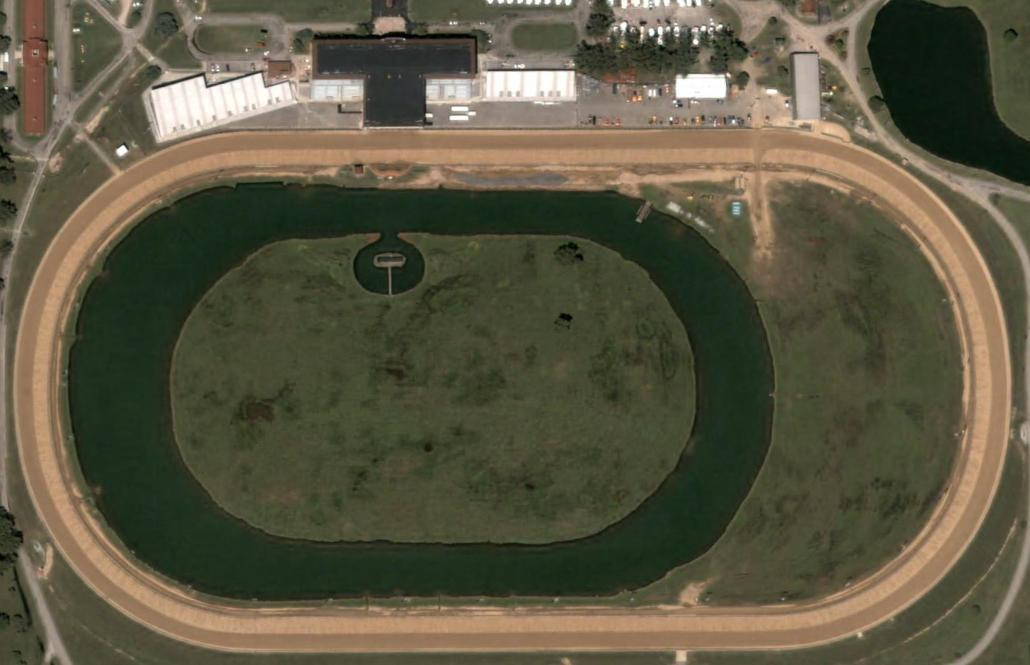 DuQuoin State Fair Race Track image taken in the NASA World Wind software